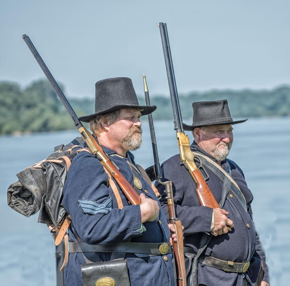 Photos I took of the re-enactment of the Newburgh Raid in July 2016, which I took part in.